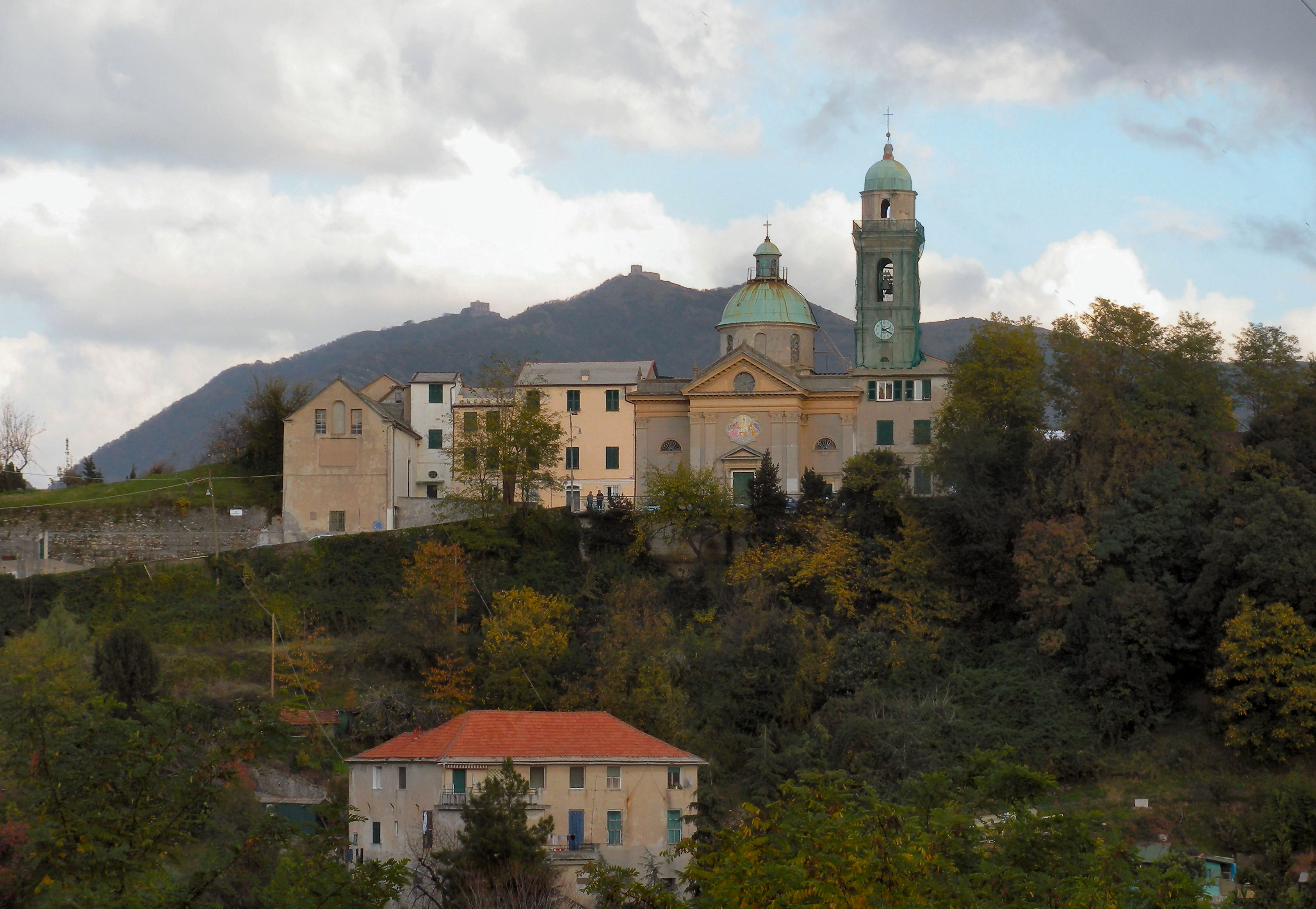 Genoa (Italy), quarter of Rivarolo, the church of St. Ambrogio at Fegino